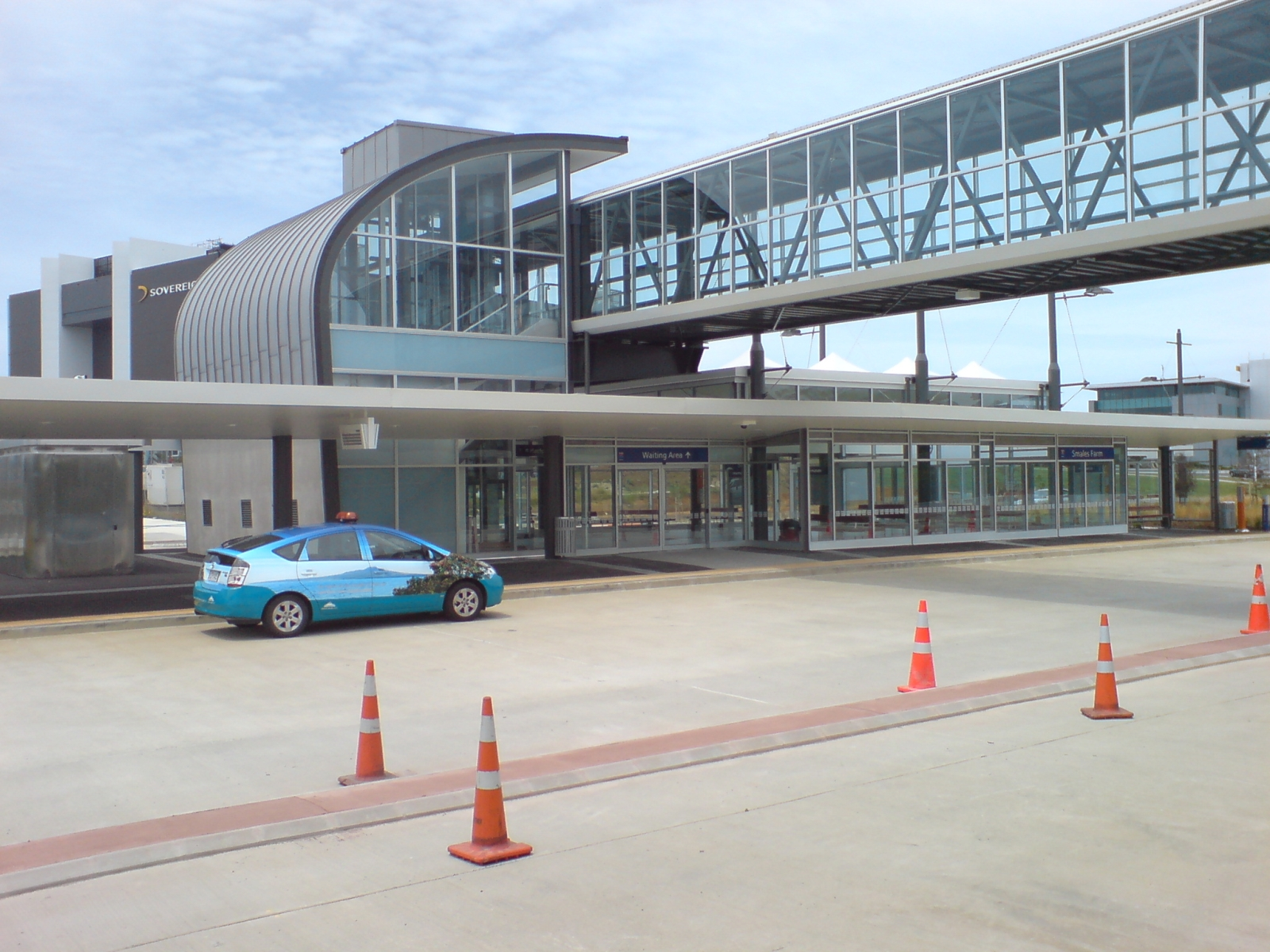 The finishing touches are being put on the Smales Farm Busway Station on the North Shore Busway in North Shore City in New Zealand.